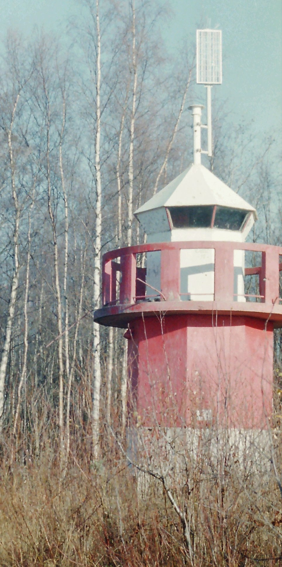 Koskela Light in Oulu in October 1995.